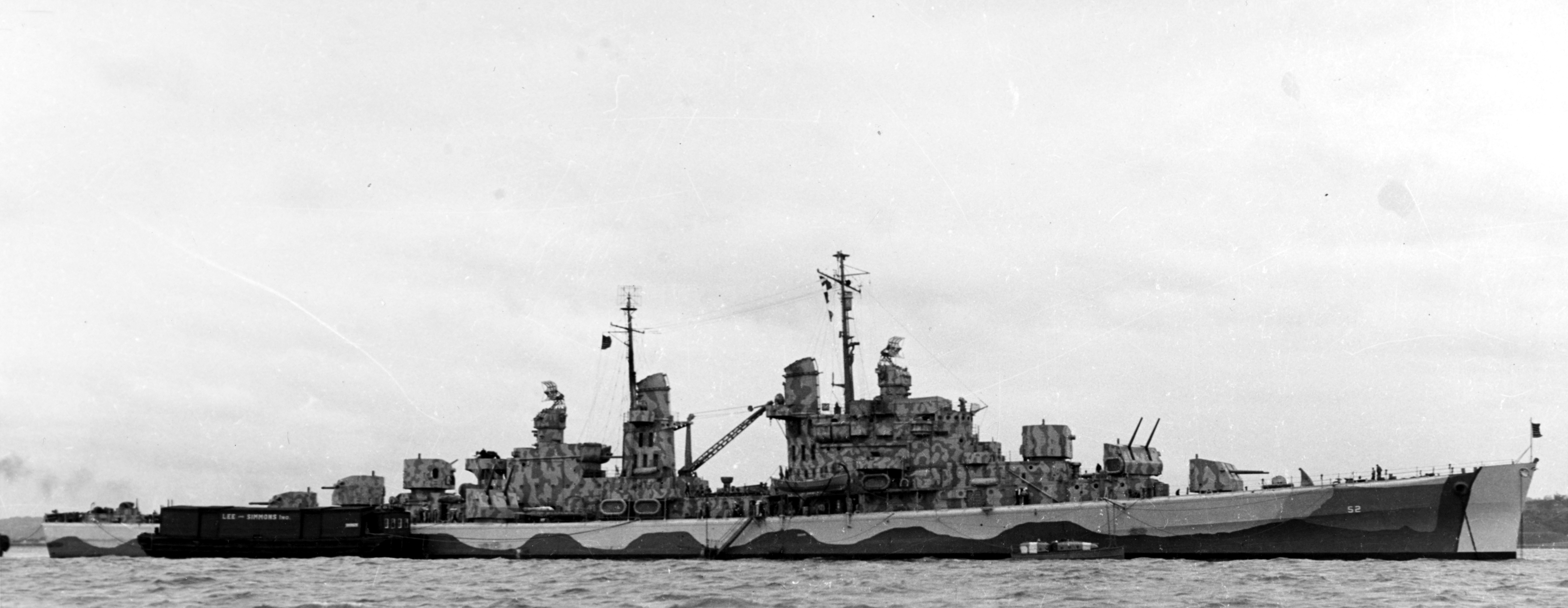 The U.S. Navy light cruiser USS Juneau (CL-52) off New York City (USA), 1 June 1942. A barge is alongside her starboard quarter. Her superstructure retains its original measure 12 "mottled pattern" camouflage scheme, but her hull has been repainted wave-style pattern.